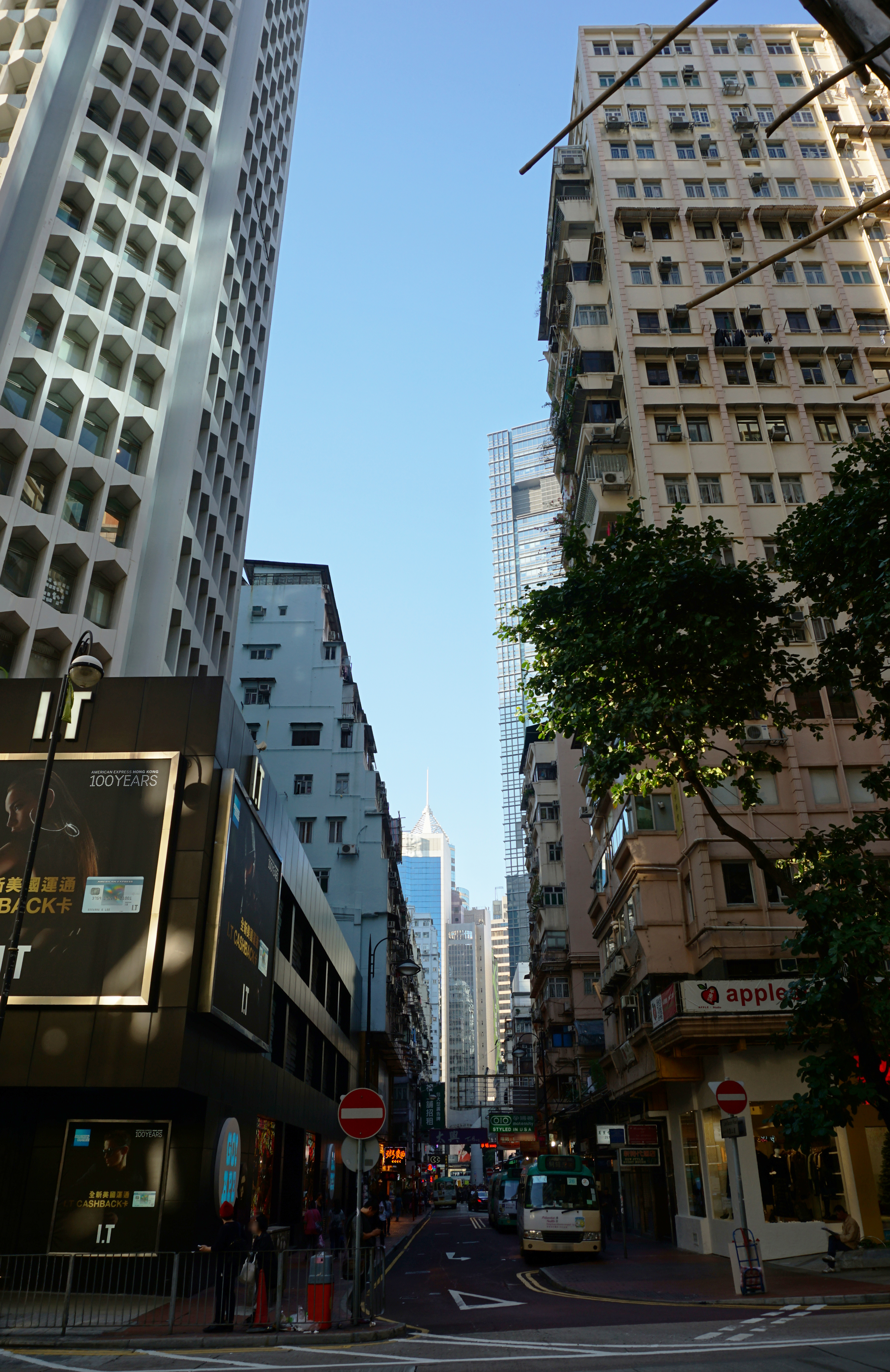 Lee Garden Road in Causeway Bay, Hong Kong.